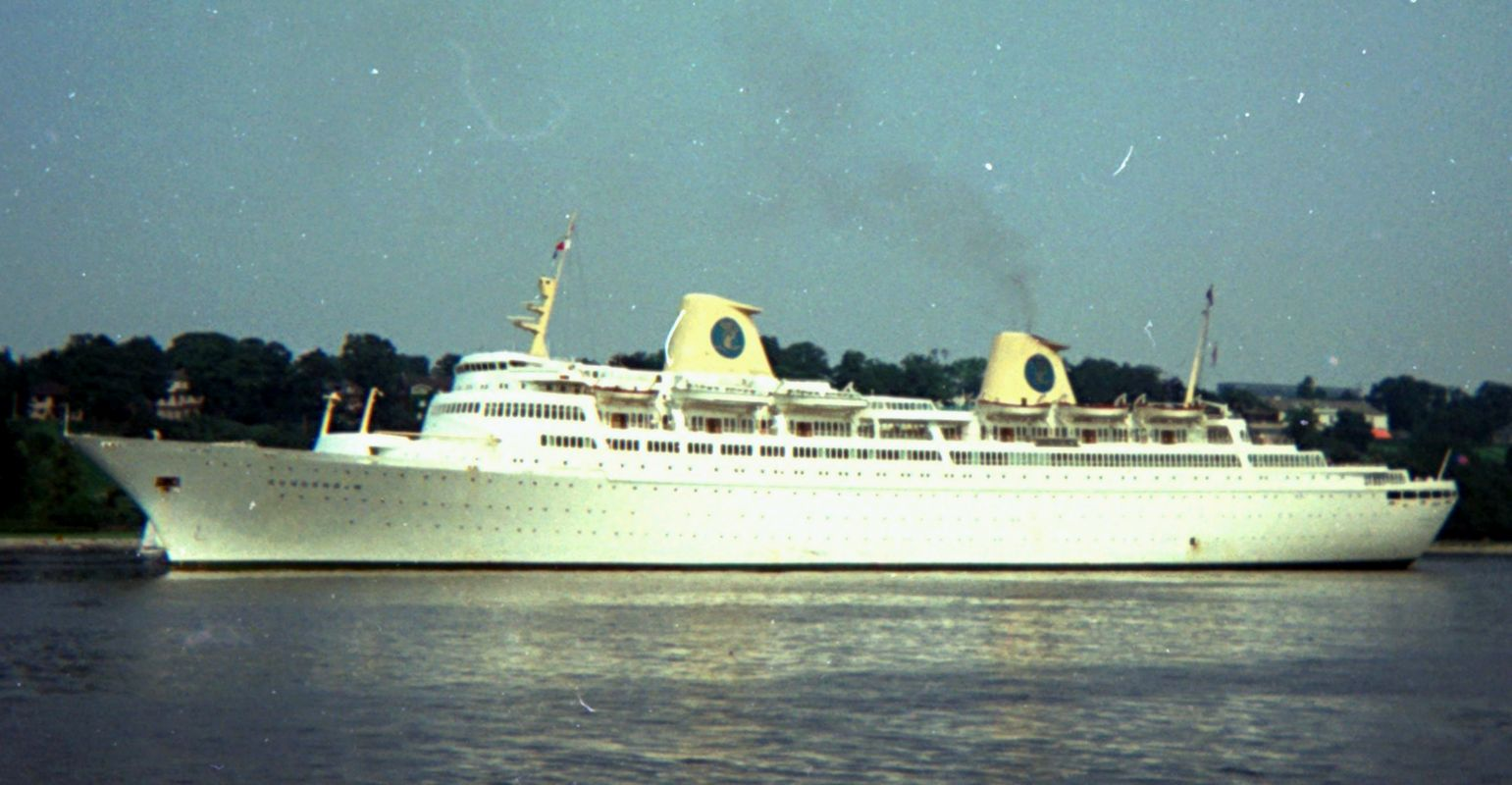 The cruise ship Kungsholm at Hamburg in 1970.